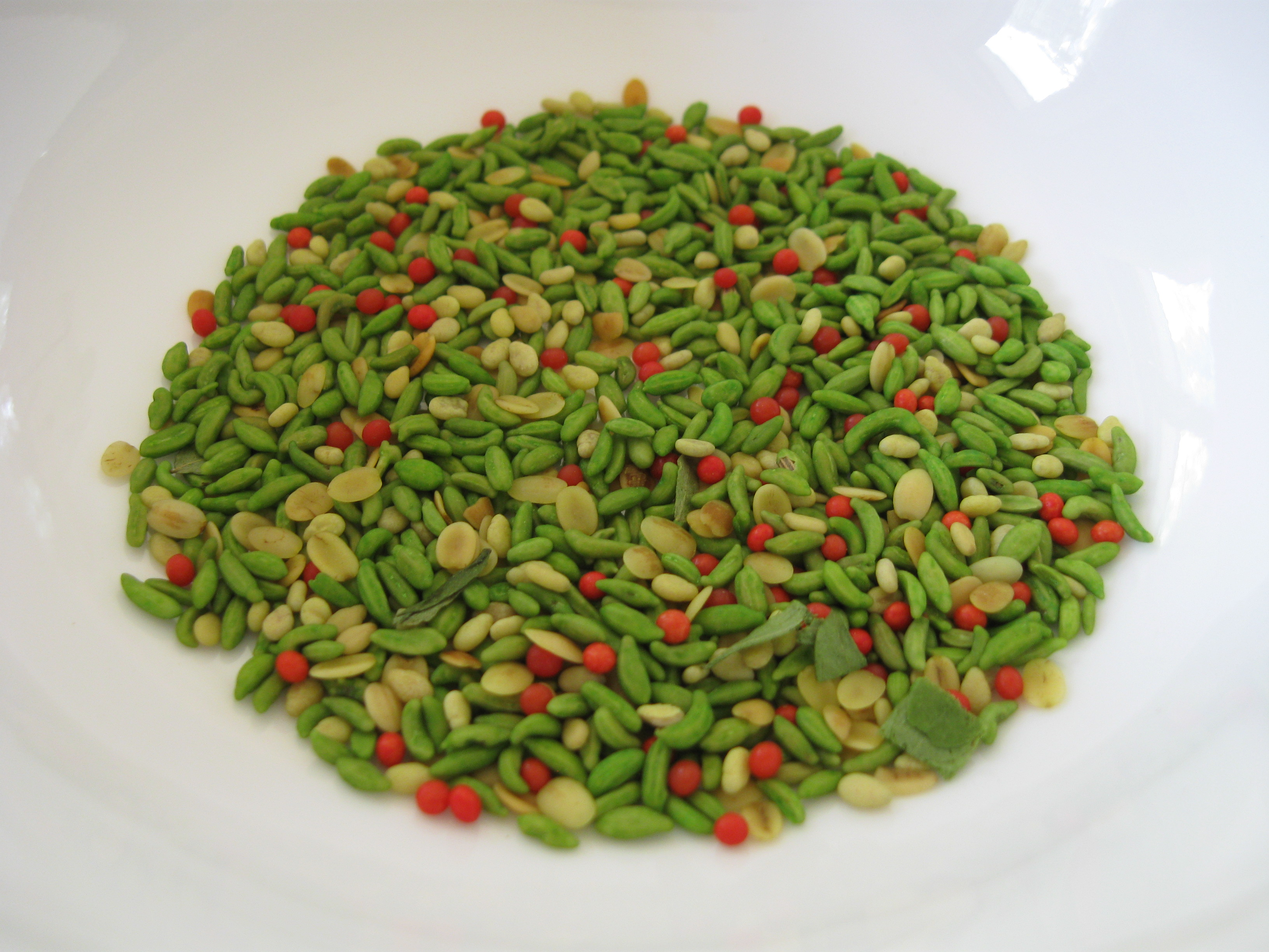 Green Mukhwas, a sugar-coated spice mix, mainly fennel, used as an after-dinner mouth freshener with Indian cuisine.